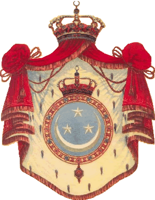 Coat of arms of the Kingdom of Egypt, adopted by royal decree on 10 December 1923, and replaced by the republican eagle on 29 June 1953.